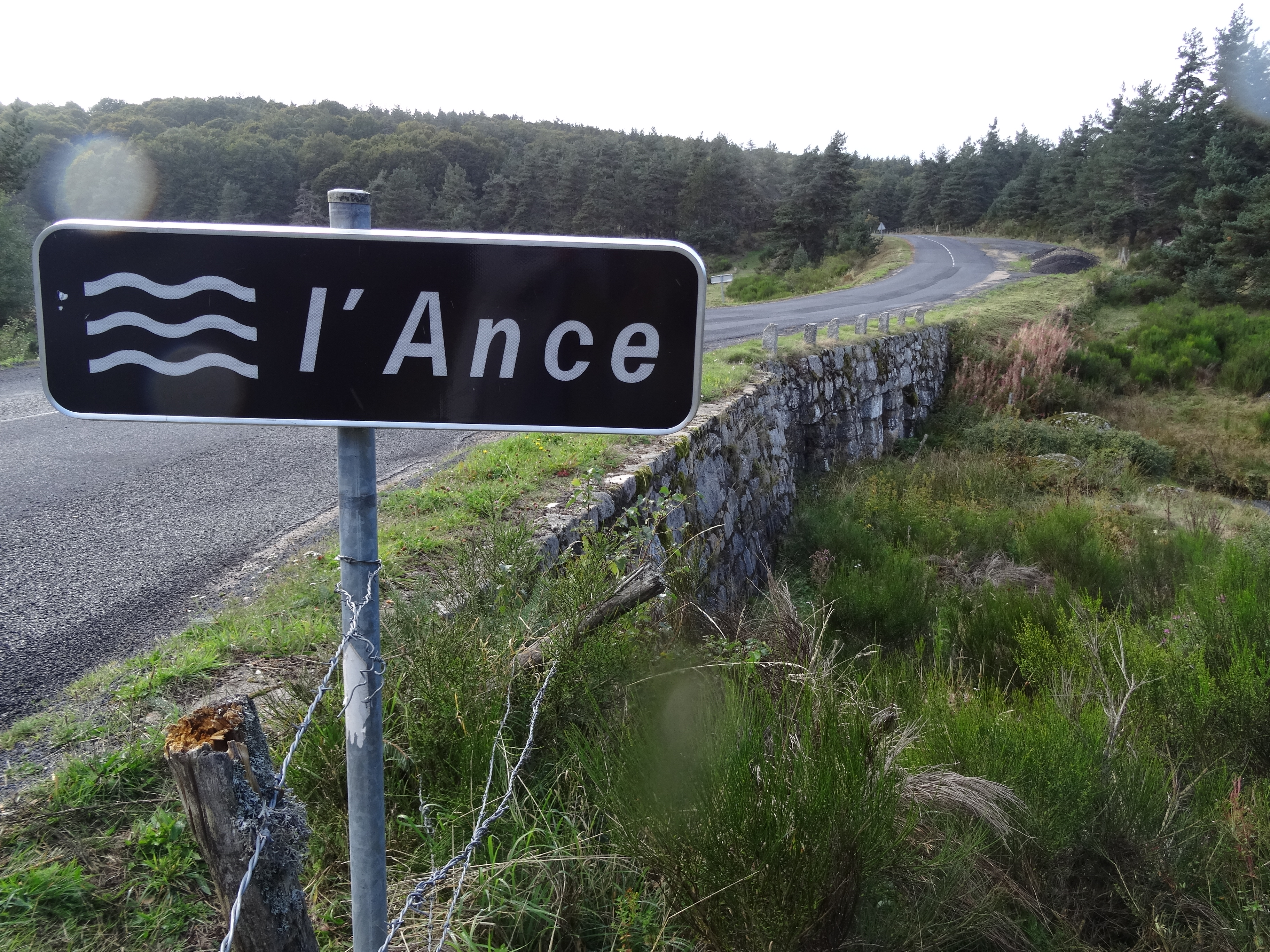 the Ance at the Pont des Sept Trous-Saint Paul le Froid -Margeride- Lozèr